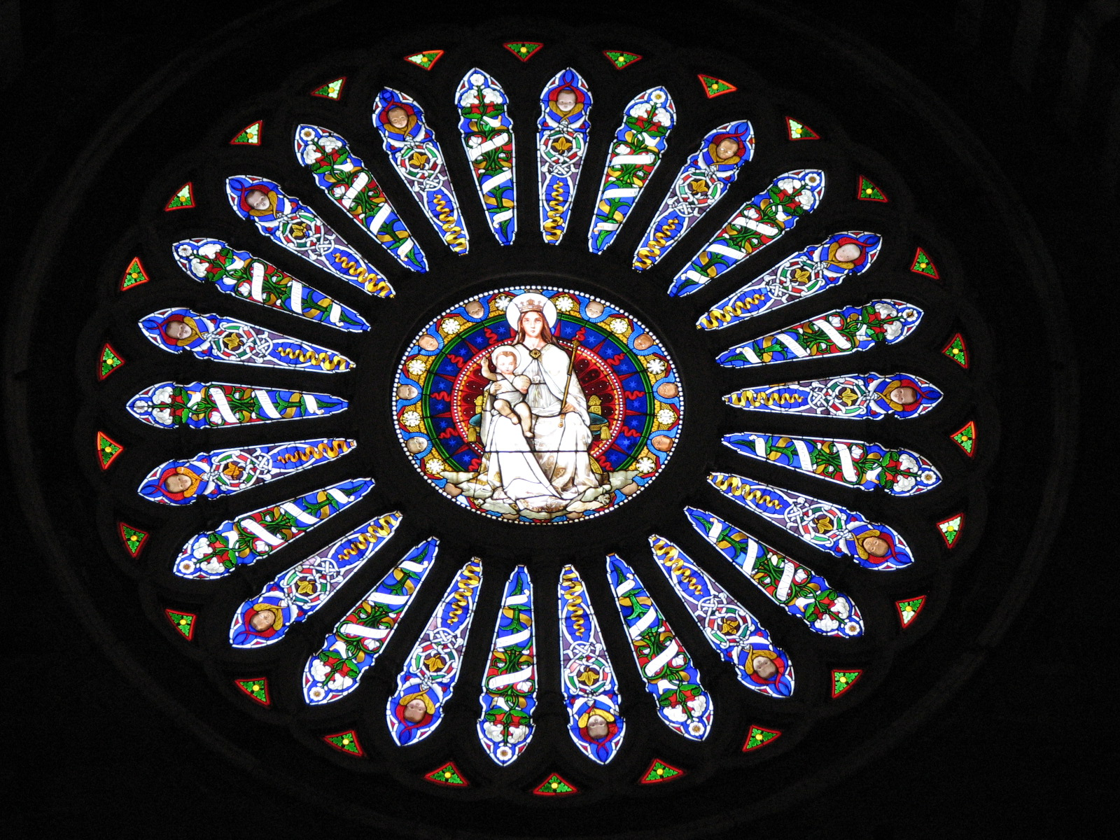 Cathedral of St. Lawrence (Genoa)